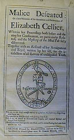 The Frontispiece of Malice Defeated by Elizabeth Cellier published London 1680.